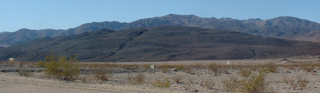 Picture of Shoreline Butte in Death Valley. This desert butte was once an island in a lake that filled Death Valley several times during the last ice age and probably in ice ages before that. Notice the different horizontal linear features that are thought to be ancient shorelines from this lake which scientists call Lake Manly. Image by Daniel Mayer taken on 2002-03-27. © 2002 and released under terms of the GNU FDL.